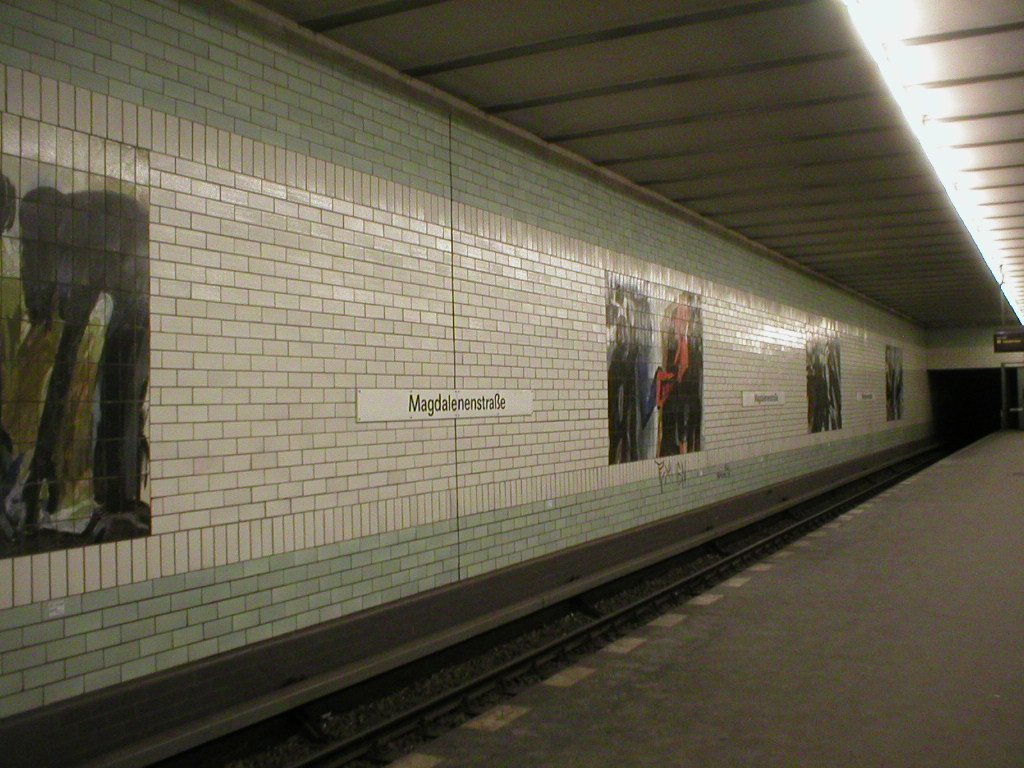 the Berlin U-Bahn station Magdalenenstraße, line U5, before the renovation